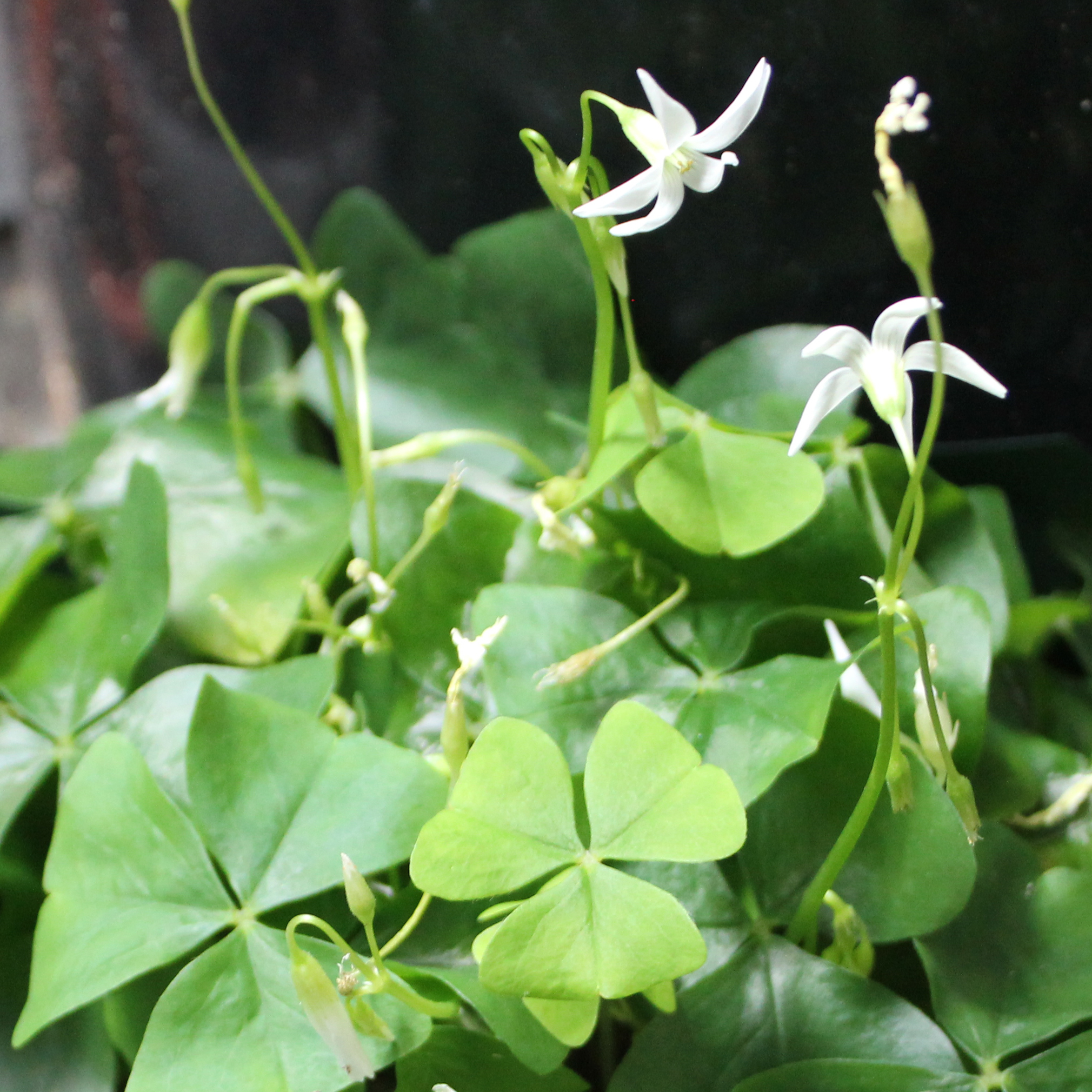 This flowering Shamrock was purchased at a local grocery store